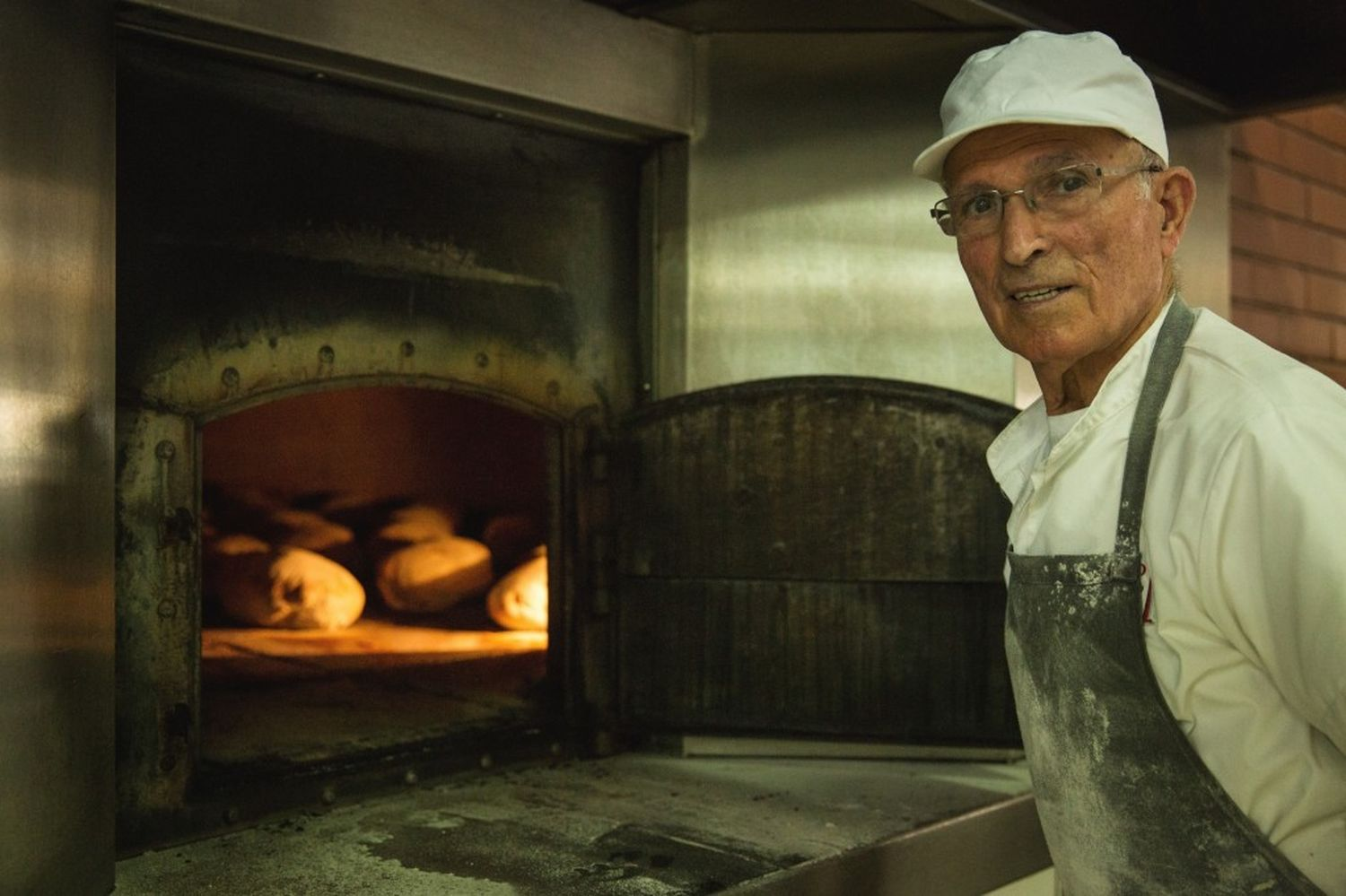 Pão de Mafra